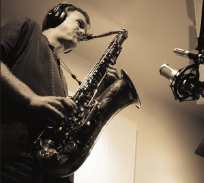 Brent Gallaher playing tenor sax in a studio recording the Lightwave project.